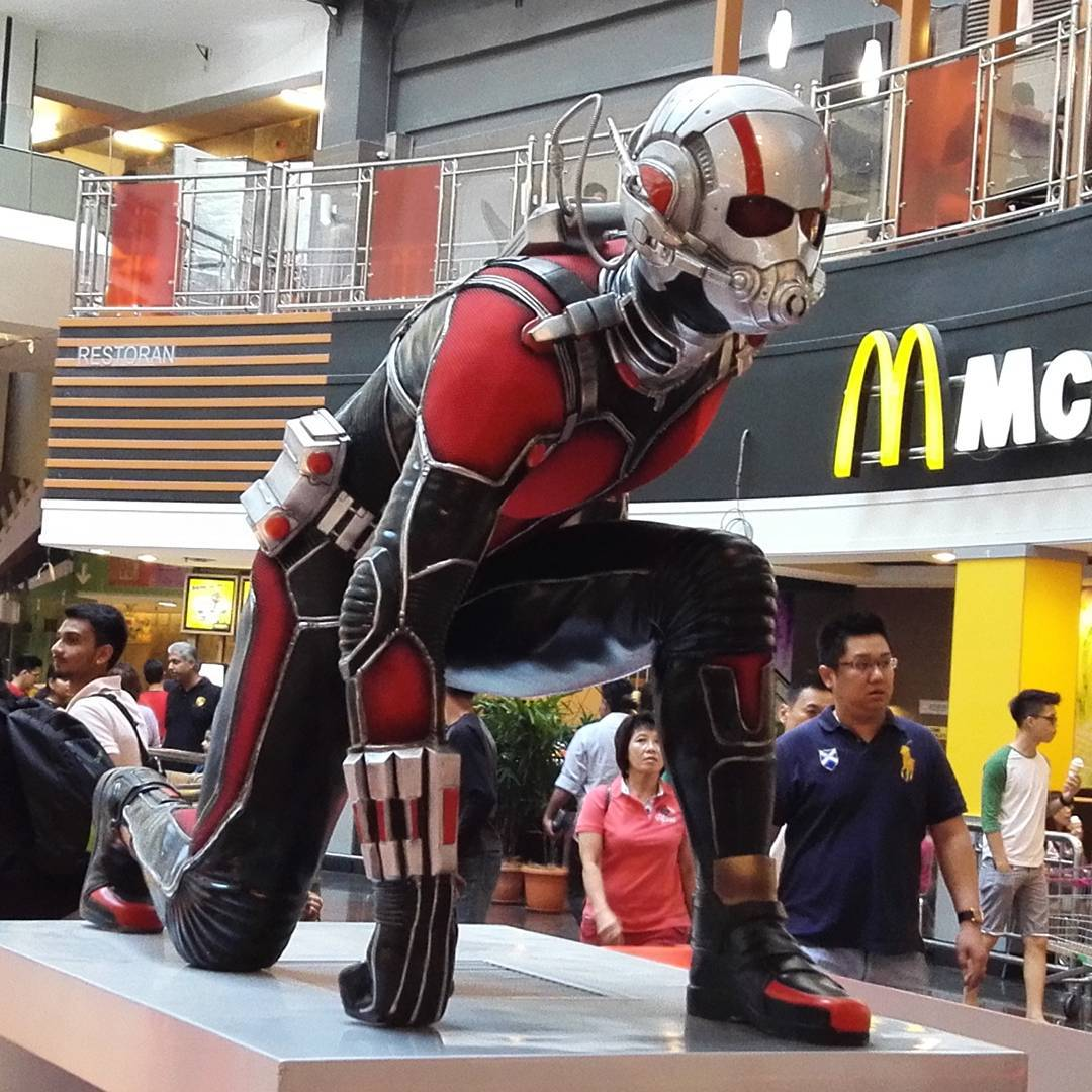 Ant-Man invades McDonald's.